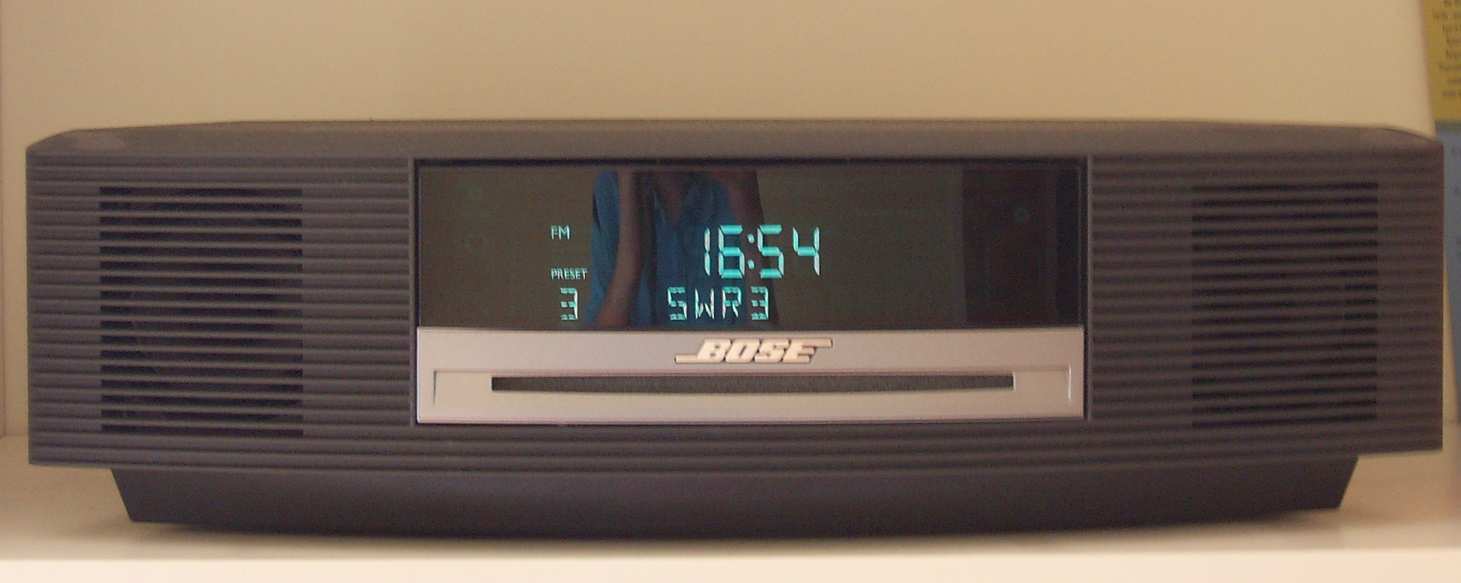 A black Bose Wave Music system displaying RDS info for the German radio station SWR3.